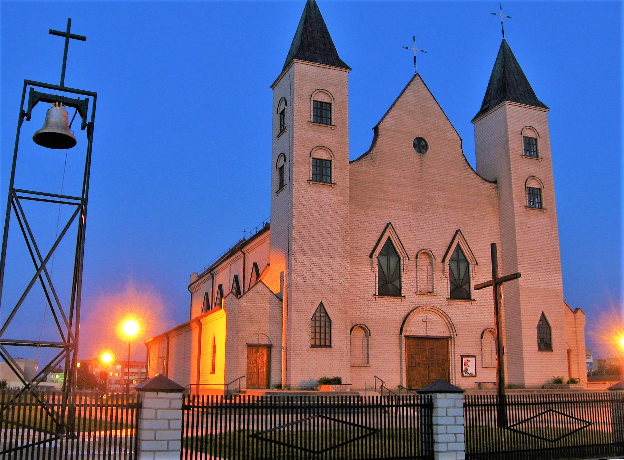 Pallottines church in Voranava, Belarus